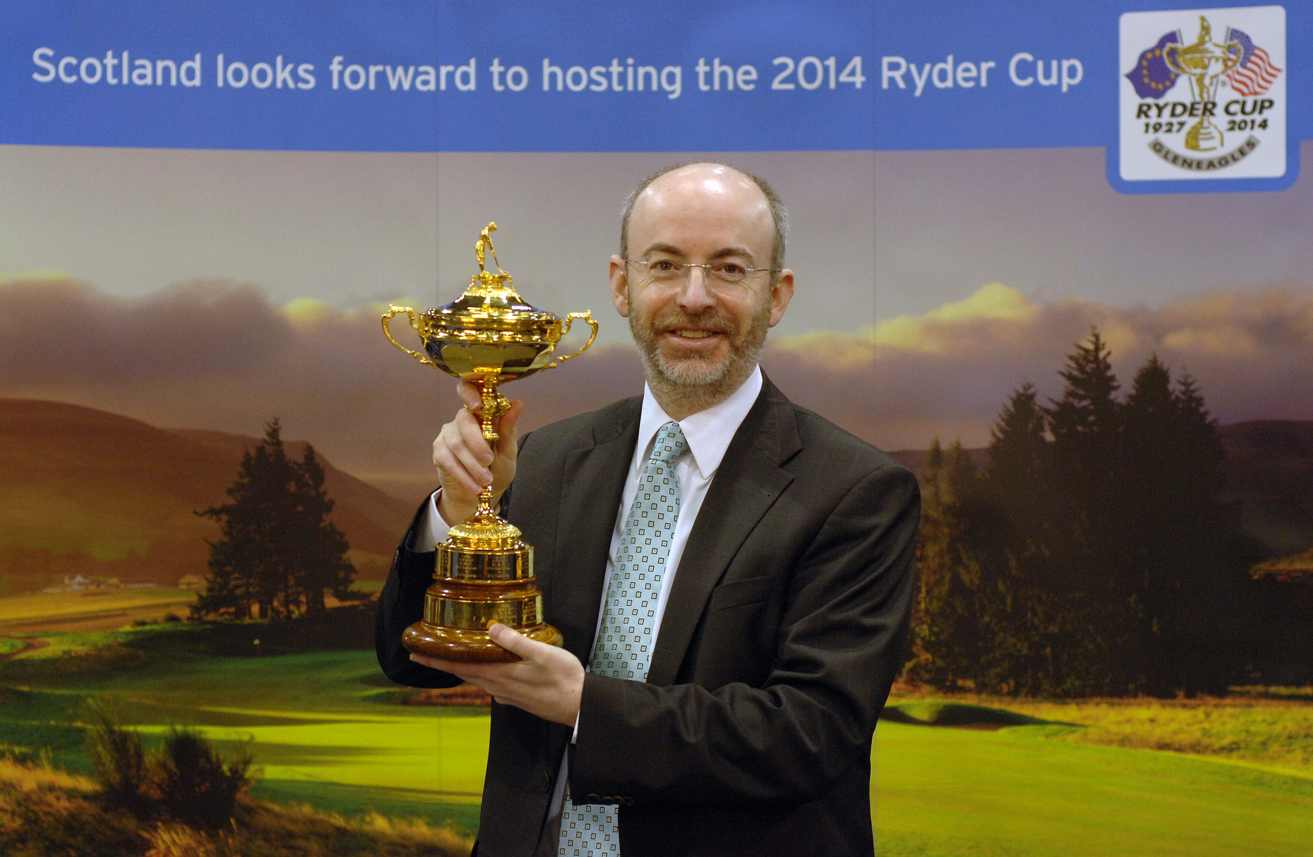 Scottish Sports Minister Stewart Maxwell holds the Ryder Cup at the Scottish Golf Show 2008.